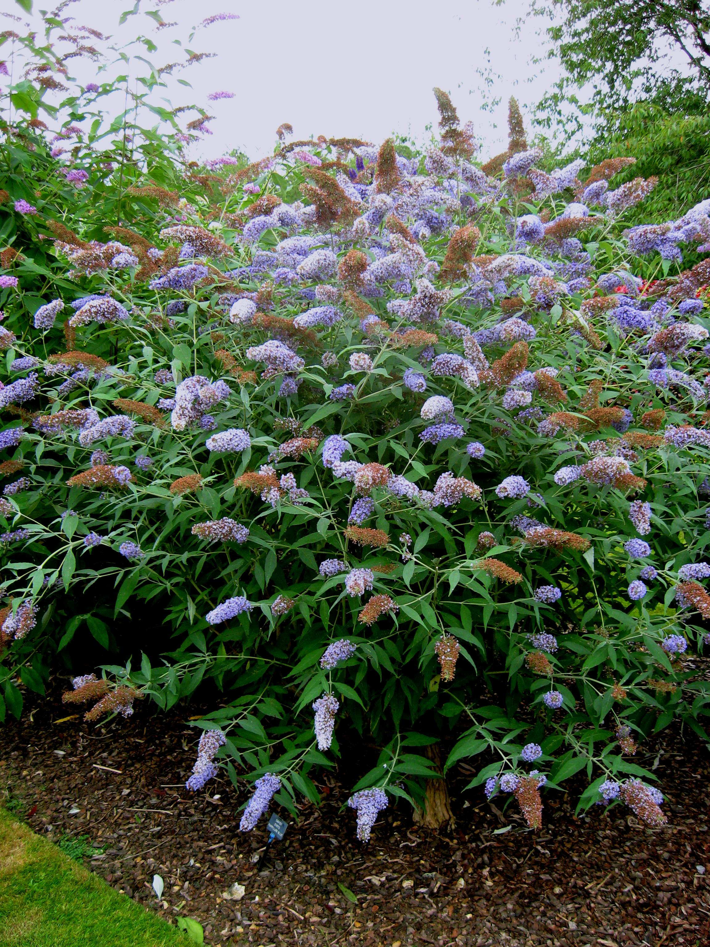 Photo taken at Longstock Park, UK, August 2012.